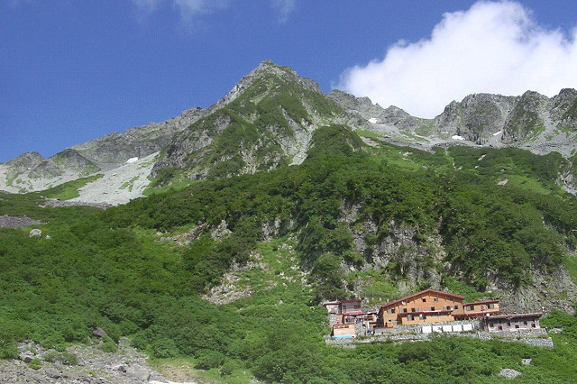 Mount Kitahotaka (Kita-hotaka-dake) seen from Karasawa Cirque in the Hida Mountains, Japan